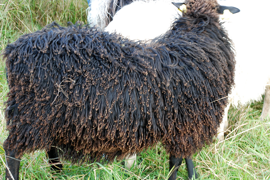 Ryafår med unika färger. (English:Rya sheep with unique colors)